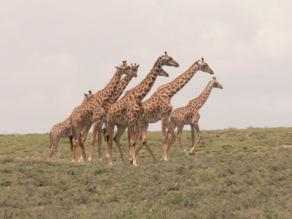 Giraffe herd in Tanzania